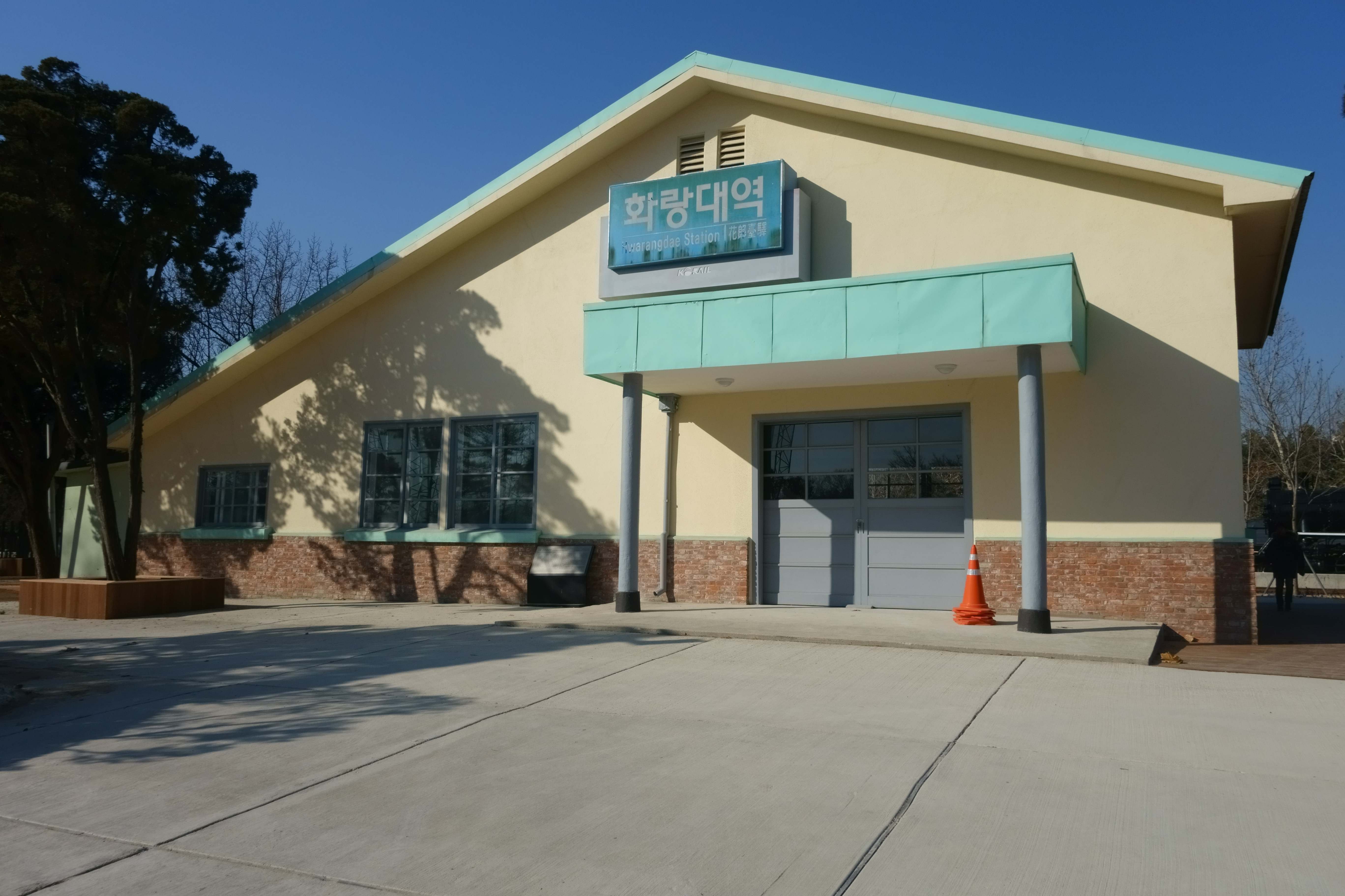 Korail Hwarangdae Stn.